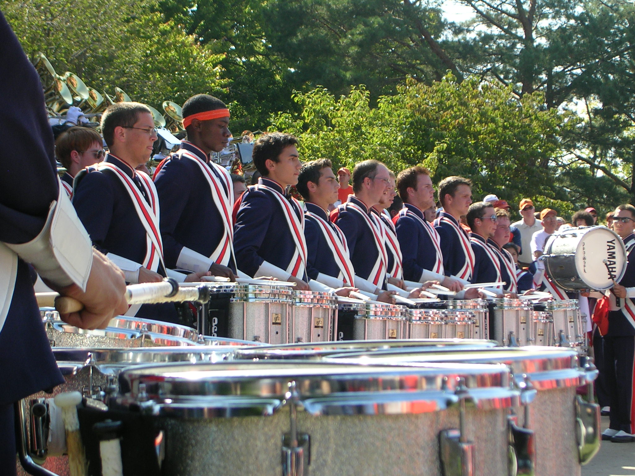 The Marching Illini Drumline at the postgame Concert. The Illini Drumline during the postgame concert after the Syracuse game in September 2006.